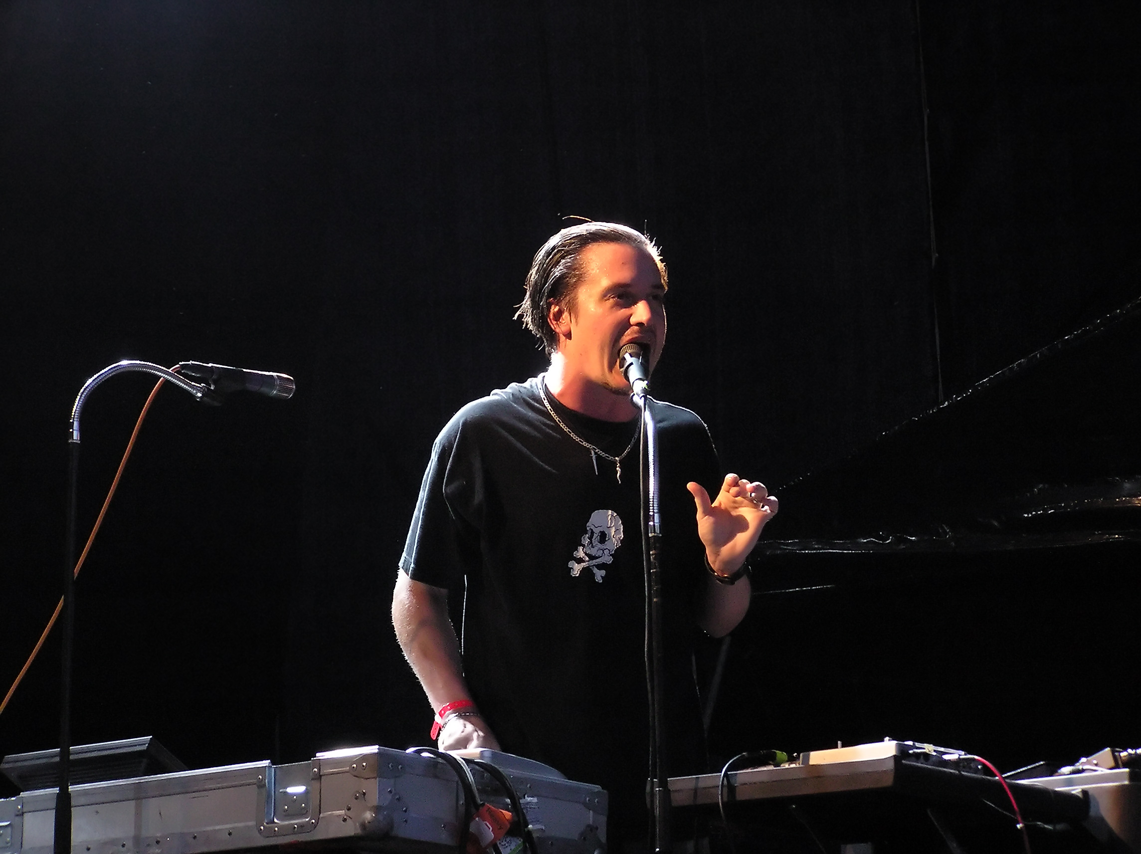 Mike Patton performing with Fantômas at Quart Festival 2005, Norway